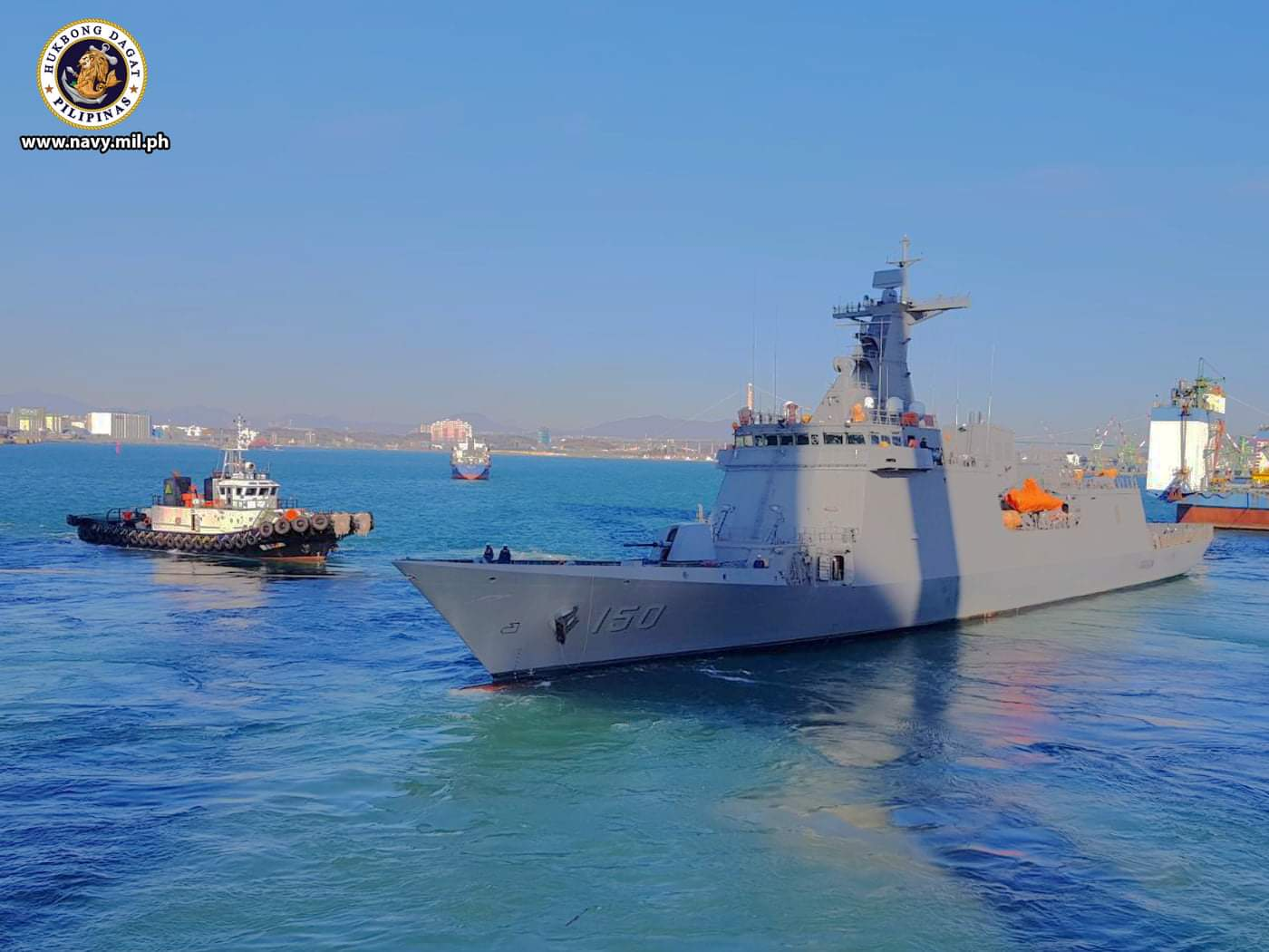 BRP Jose Rizal (FF150) undergoes historic sea trials. Stern view.